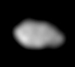 Jovian satellite Metis, imaged by the Galileo spacecraft